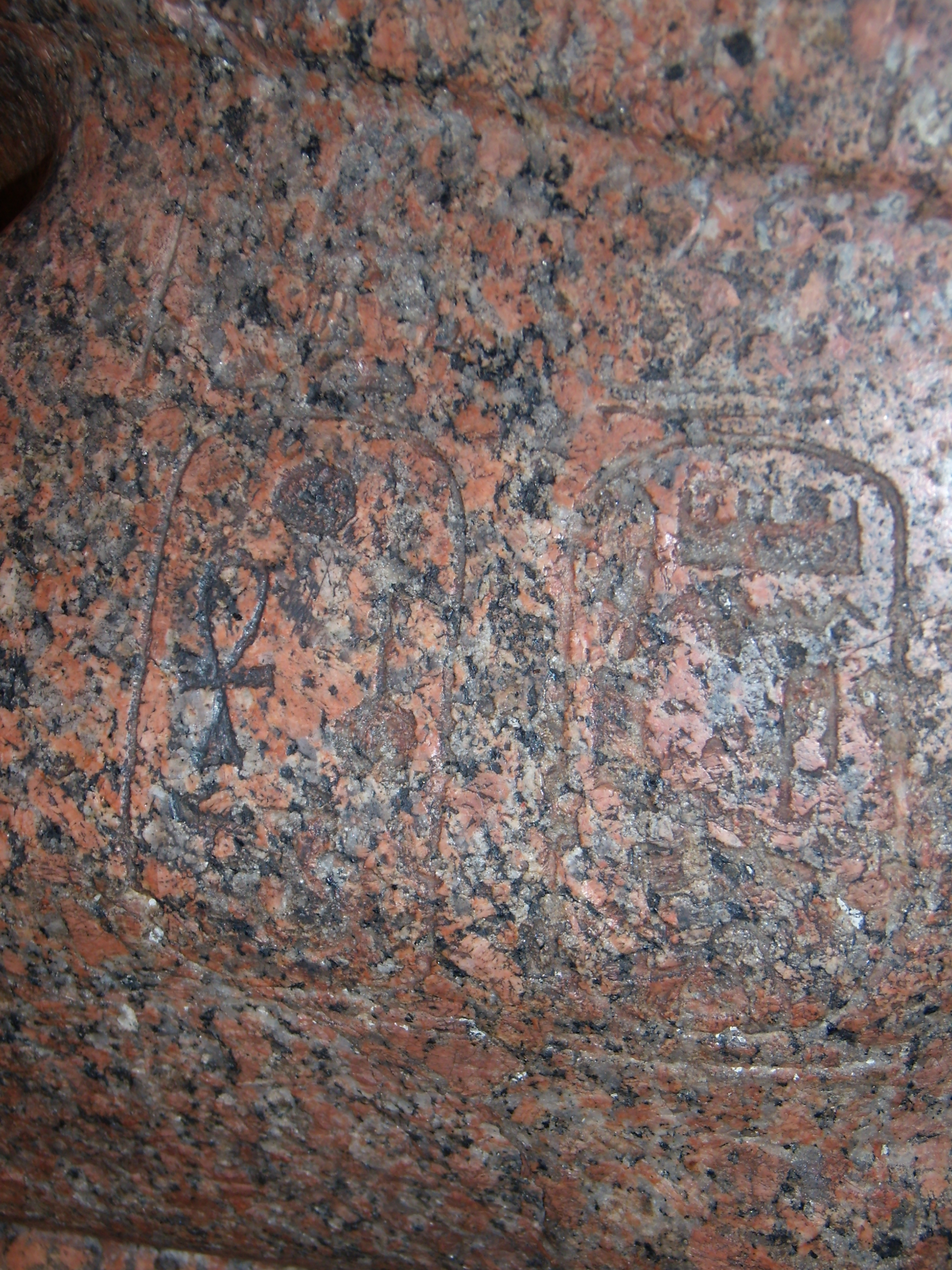 Cartouche of Nubian king Amanislo (3rd cent. BC) on an Egyptian Lion figure; British Museum